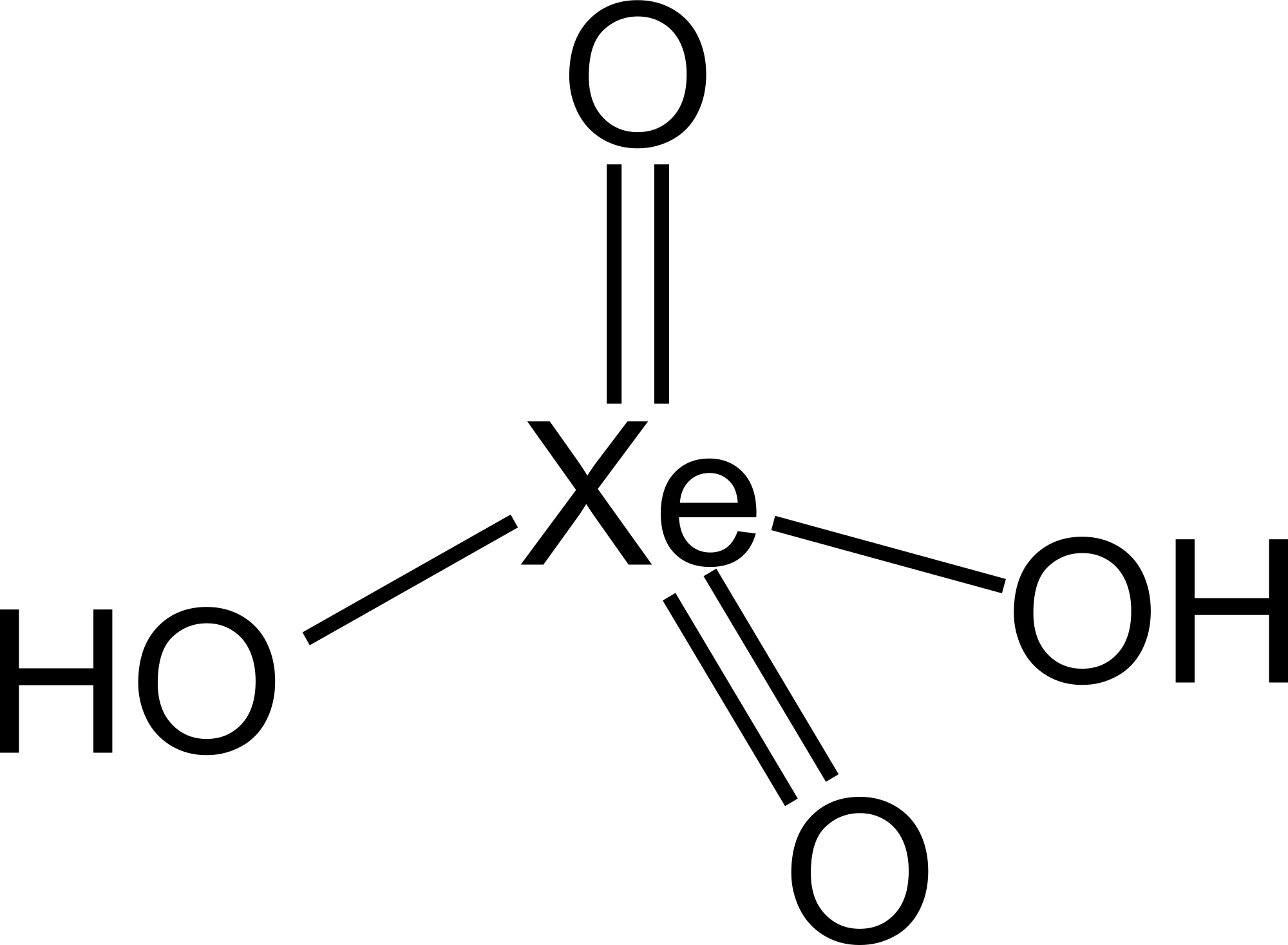 Xenic acid stacture